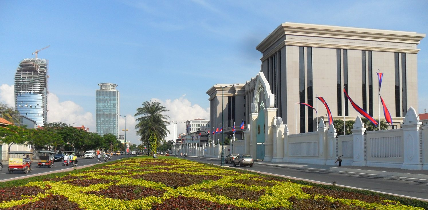 Russian Blvd (Airport Rd), Phnom Penh, Cambodia. On the right the Peace Palace.